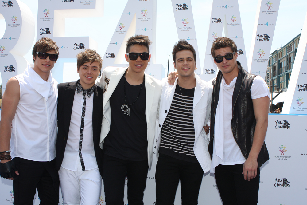 Sydney stars come out in force for Sony Foundation's Youth Cancer campaign